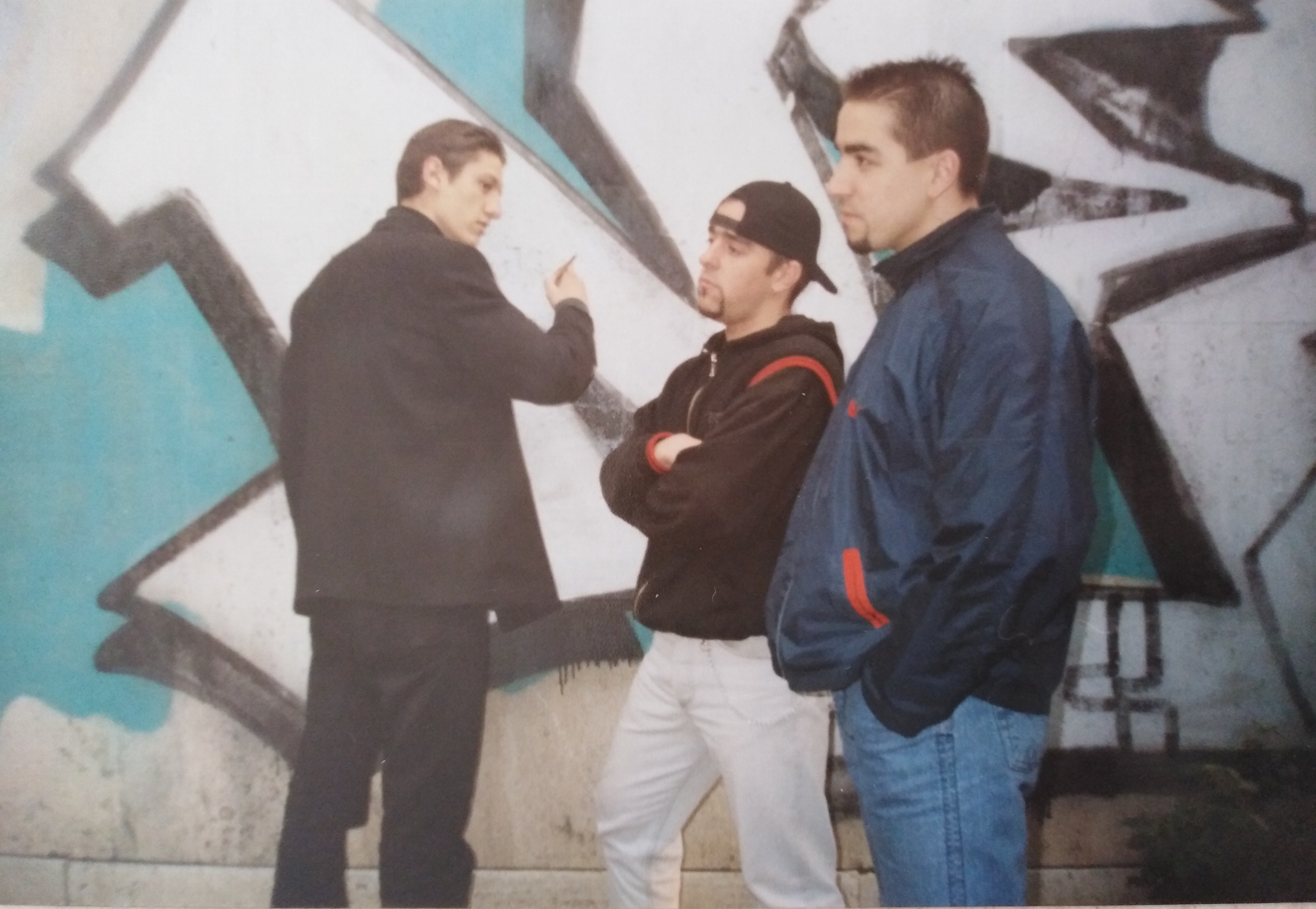 Група Дръм в състава си през 1998-ма